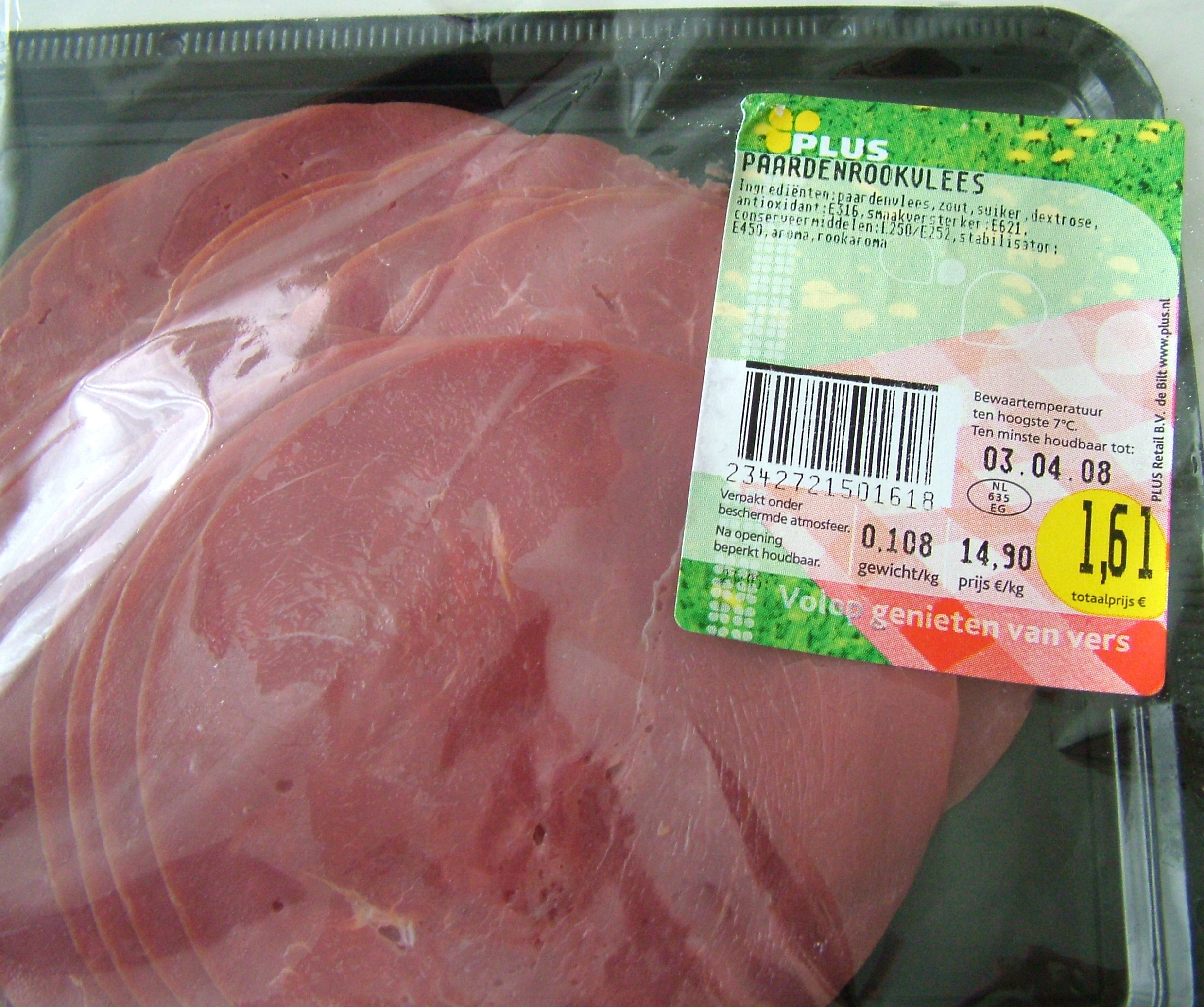 Smoked horse meat in package, bought in a Dutch supermarket; it is usually eaten in a sandwich in the Netherlands